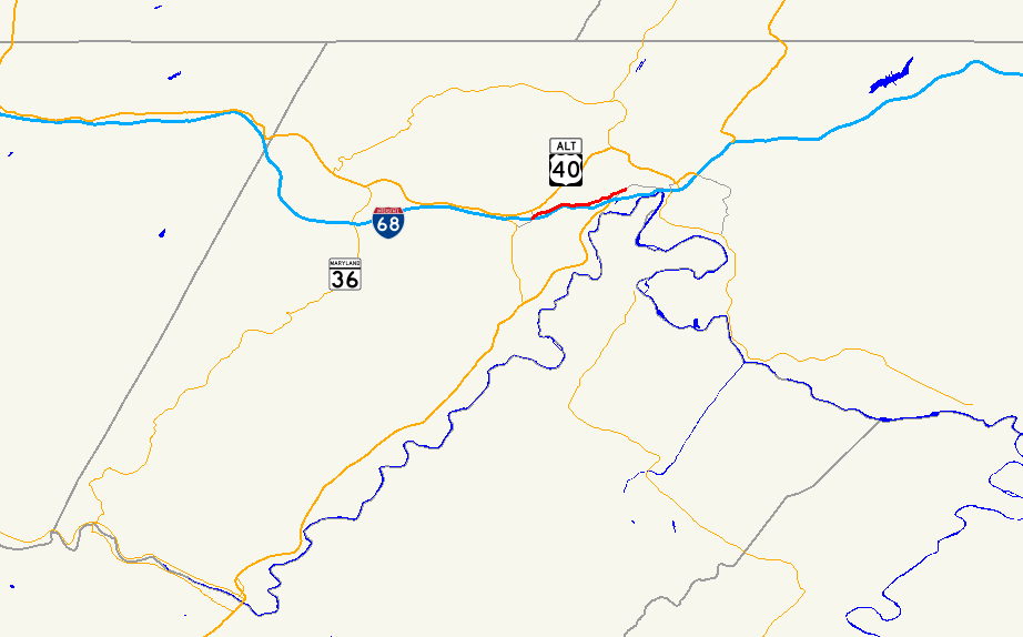 Map of MD Route 49